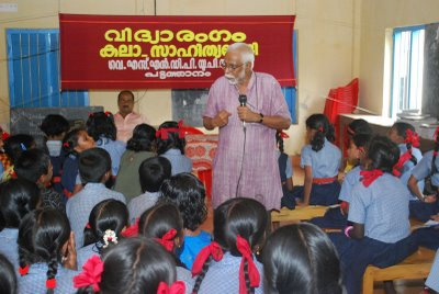 V.K.Sasidharan during a poetry recital session at pattatanam Govt. SNDP UP School, Pattathanam, Kollam